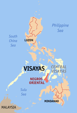 Map of the Philippines showing the location of Negros Oriental